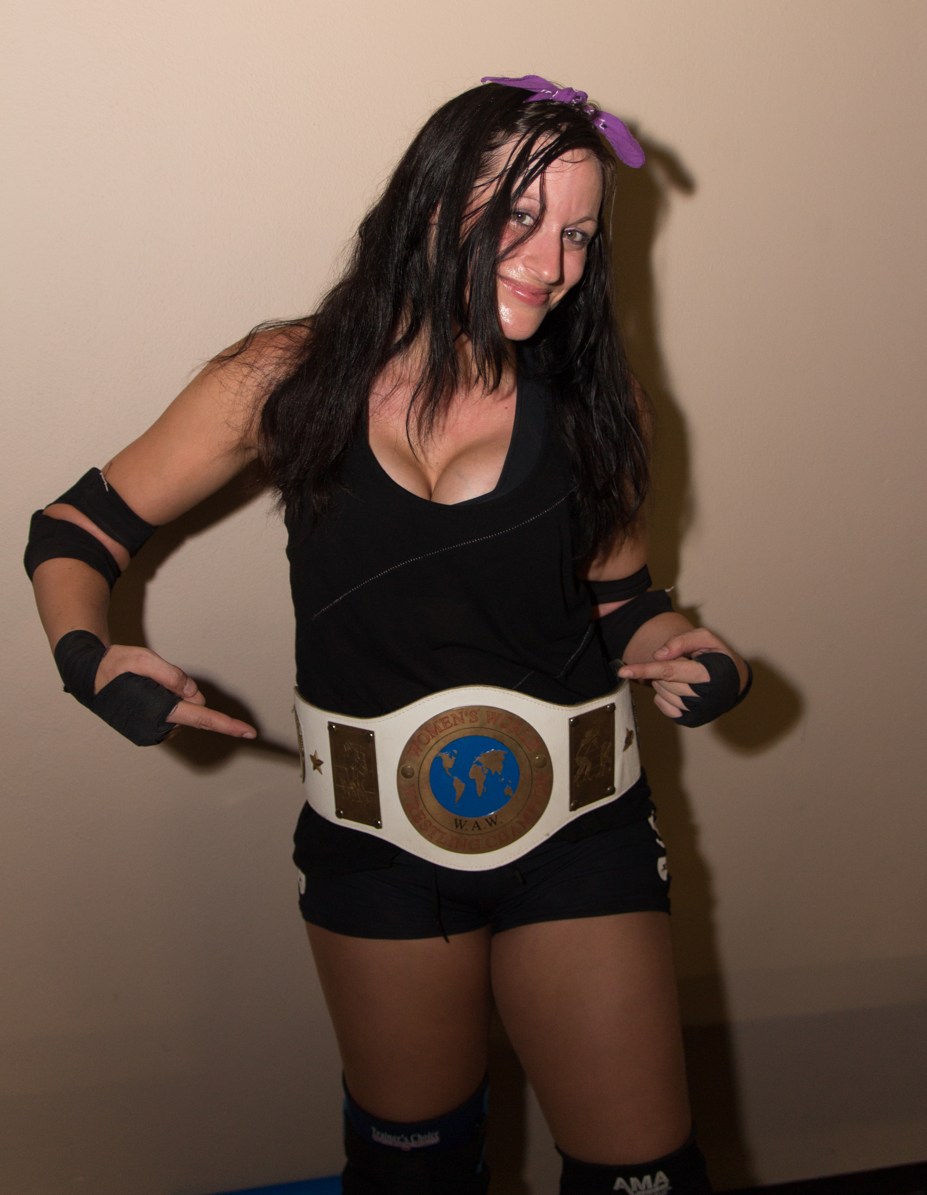 Independent wrestler Courtney Rush posing with the Bellatrix Female Warriors championship belt.